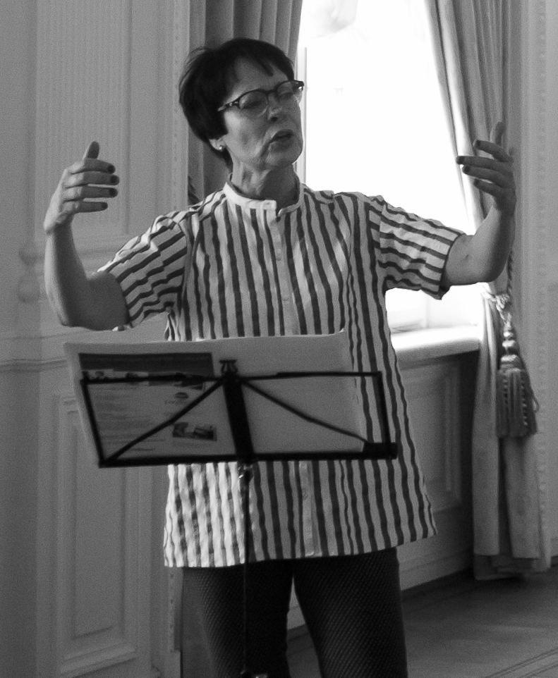 Lithuanian choirmaster Loreta Levinskaitė